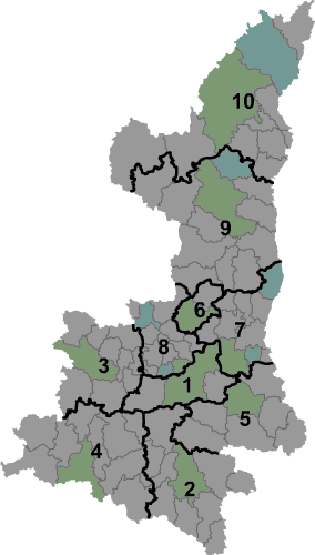 Map of prefectures of Shaanxi Province